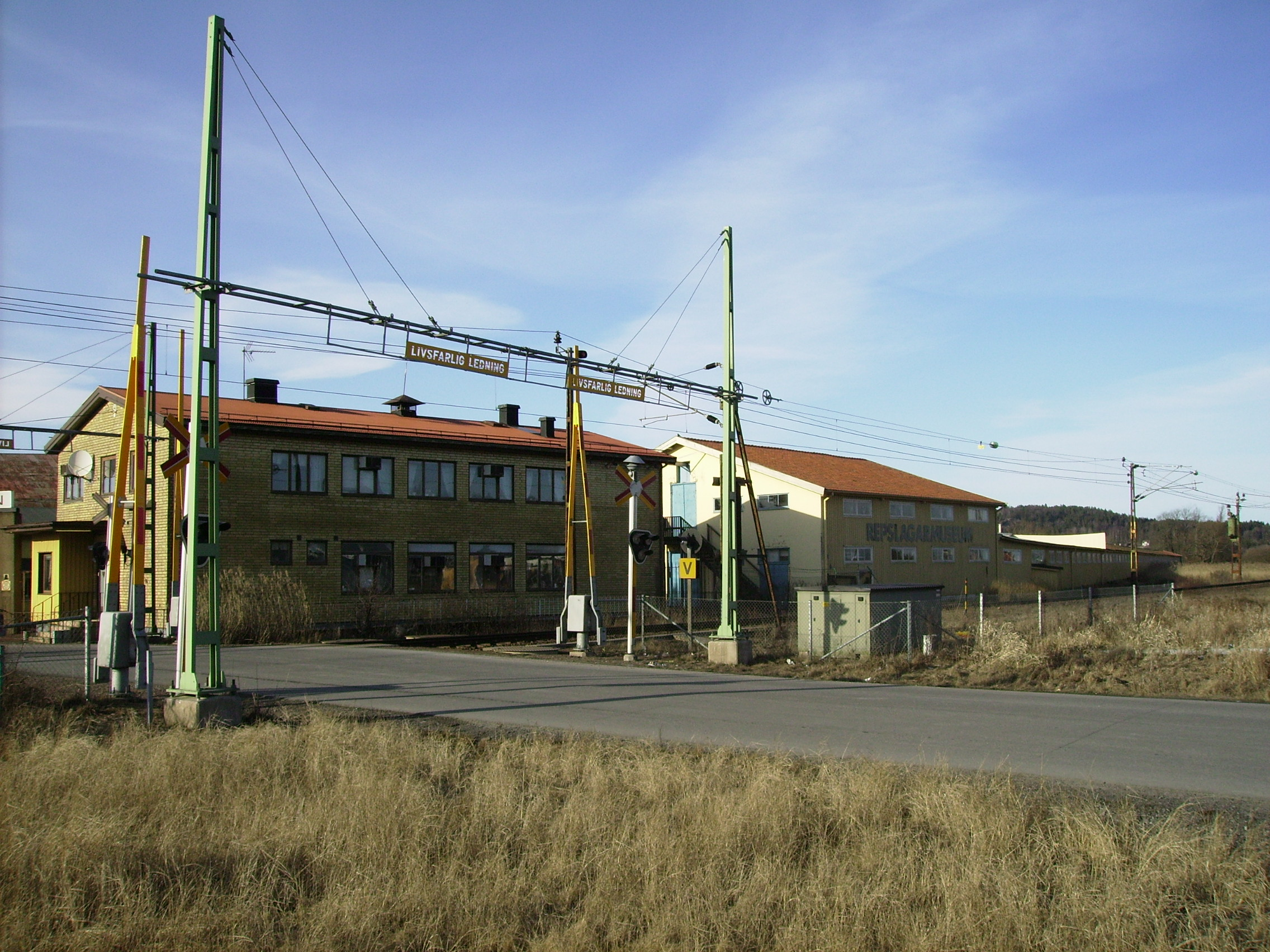 Picture of P.A. Carlmarks in Alvangen. March 2009.